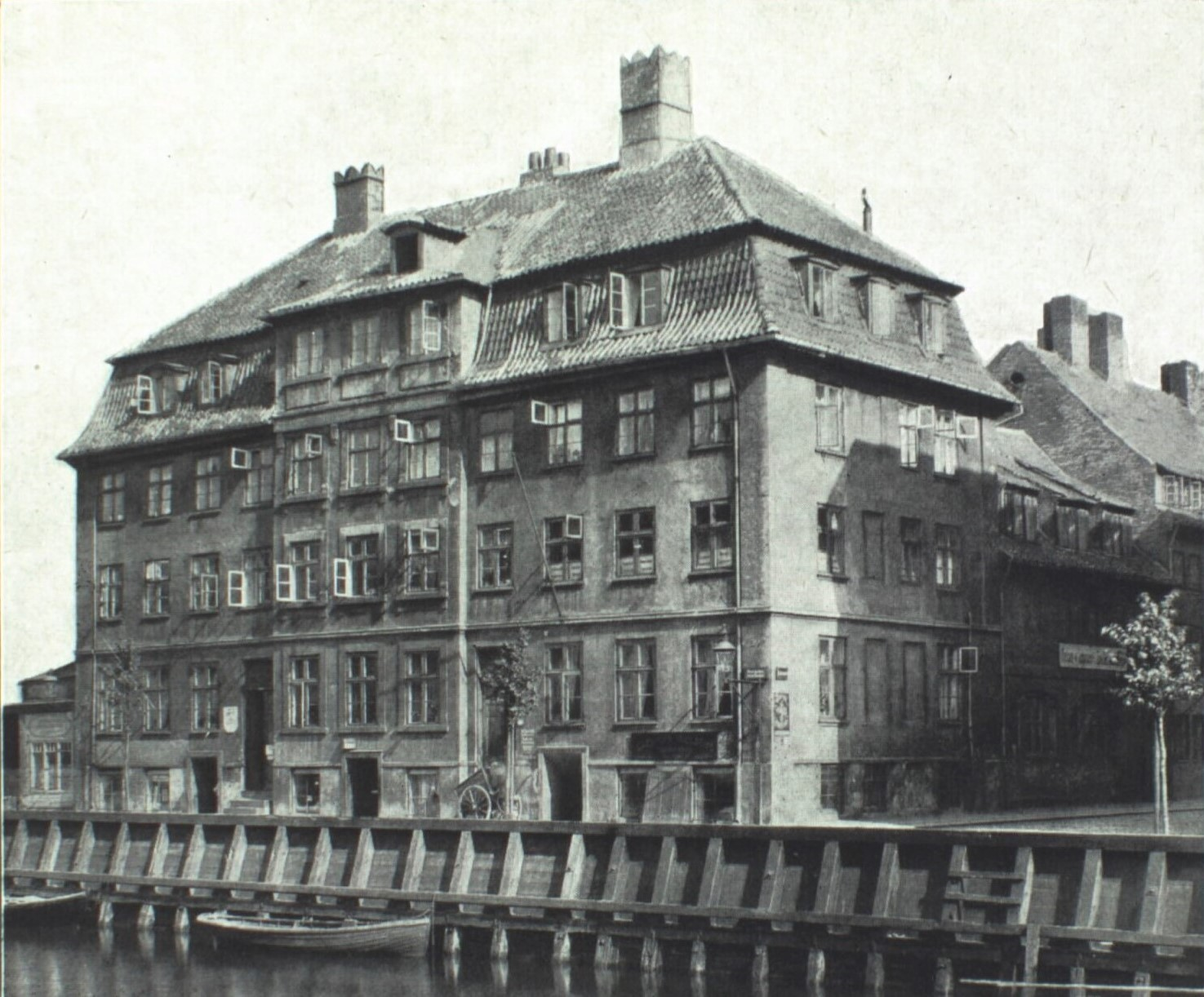 Steinfass Gård in Copenhagen, Denmark